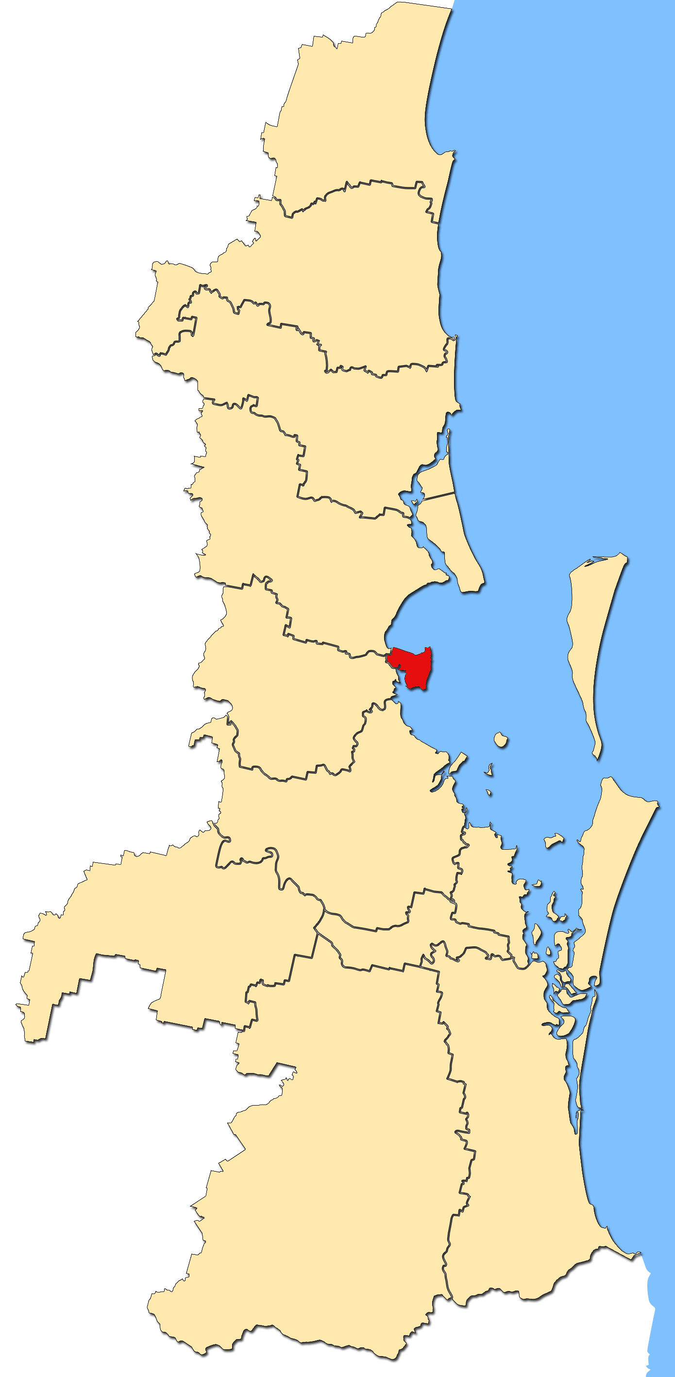 Map of South East Queensland urban local government areas, with Redcliffe City highlighted. Created by MagpieShooter.